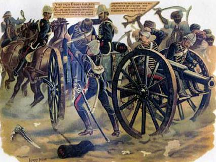 Artist unknown dating from 1880s in UK of the event when Patrick Mullane received the Victoria Cross. Photo of the picture provided by the (great?) nephew Alistair Jones of Patrick Mullane.